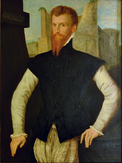 circa 1800s replica of a portrait painting of Edward Courtenay, formerly attributed to Steven van der Meulen and others